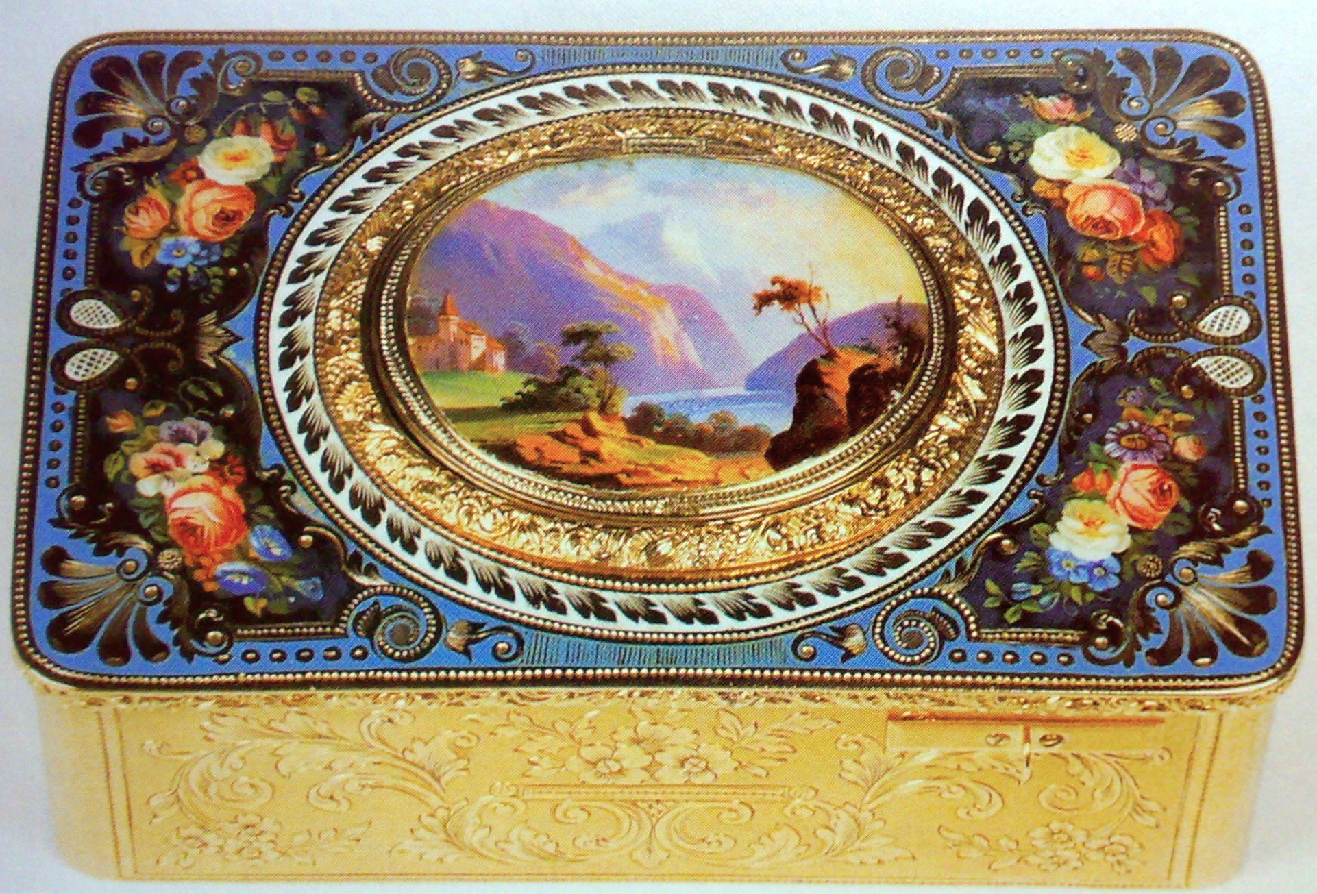 Engraved and enamelled silver-gilt singing bird box nº 67 by Charles Bruguier, ca. 1825. It bears the mark C. BRUGUIER 67.